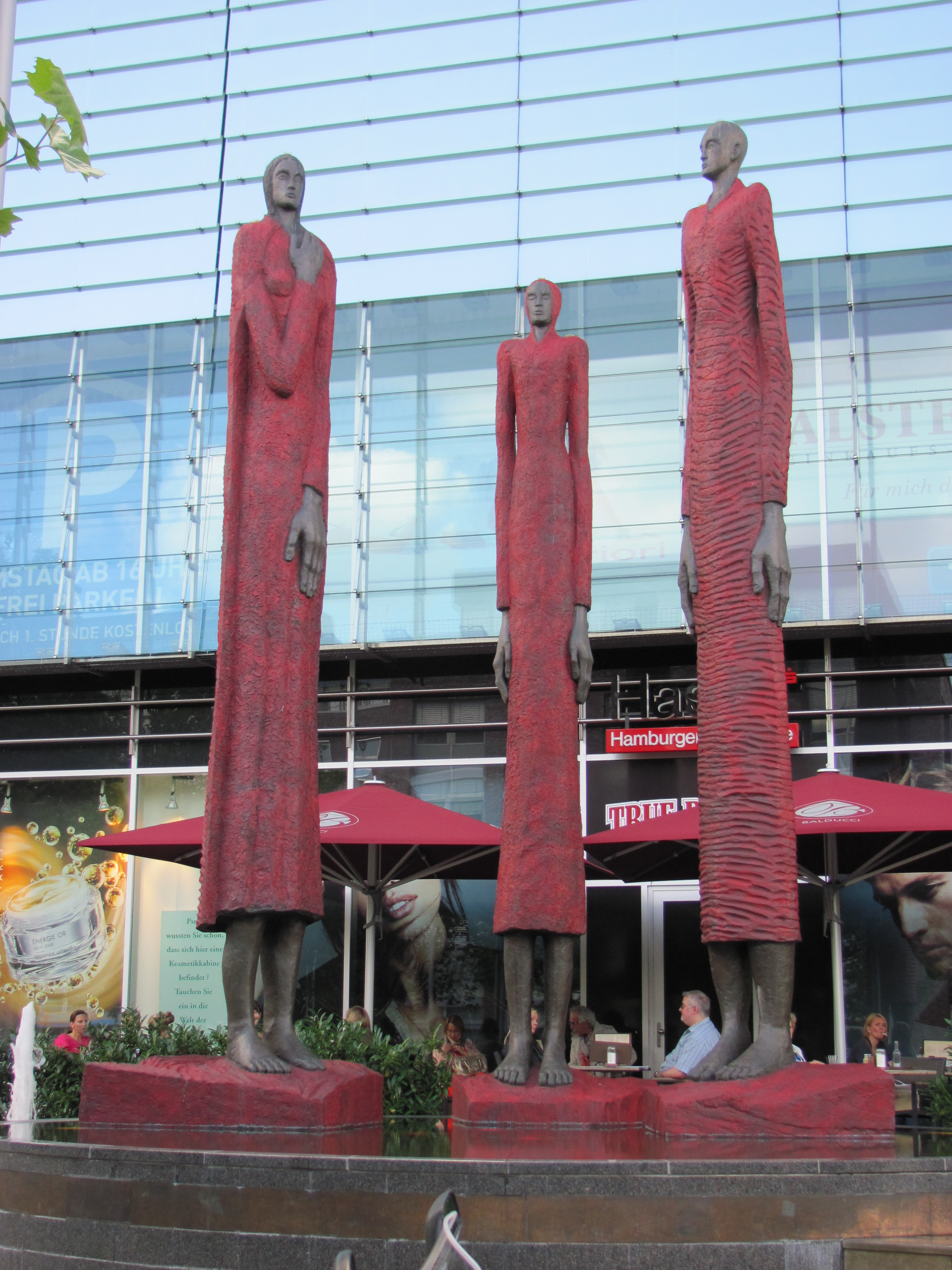 Alstertal-Einkaufs-Zentrum ("AEZ"), Hamburg-Poppenbüttel. Sculpture group Mimir-Fountain by Zoyt of 2006.